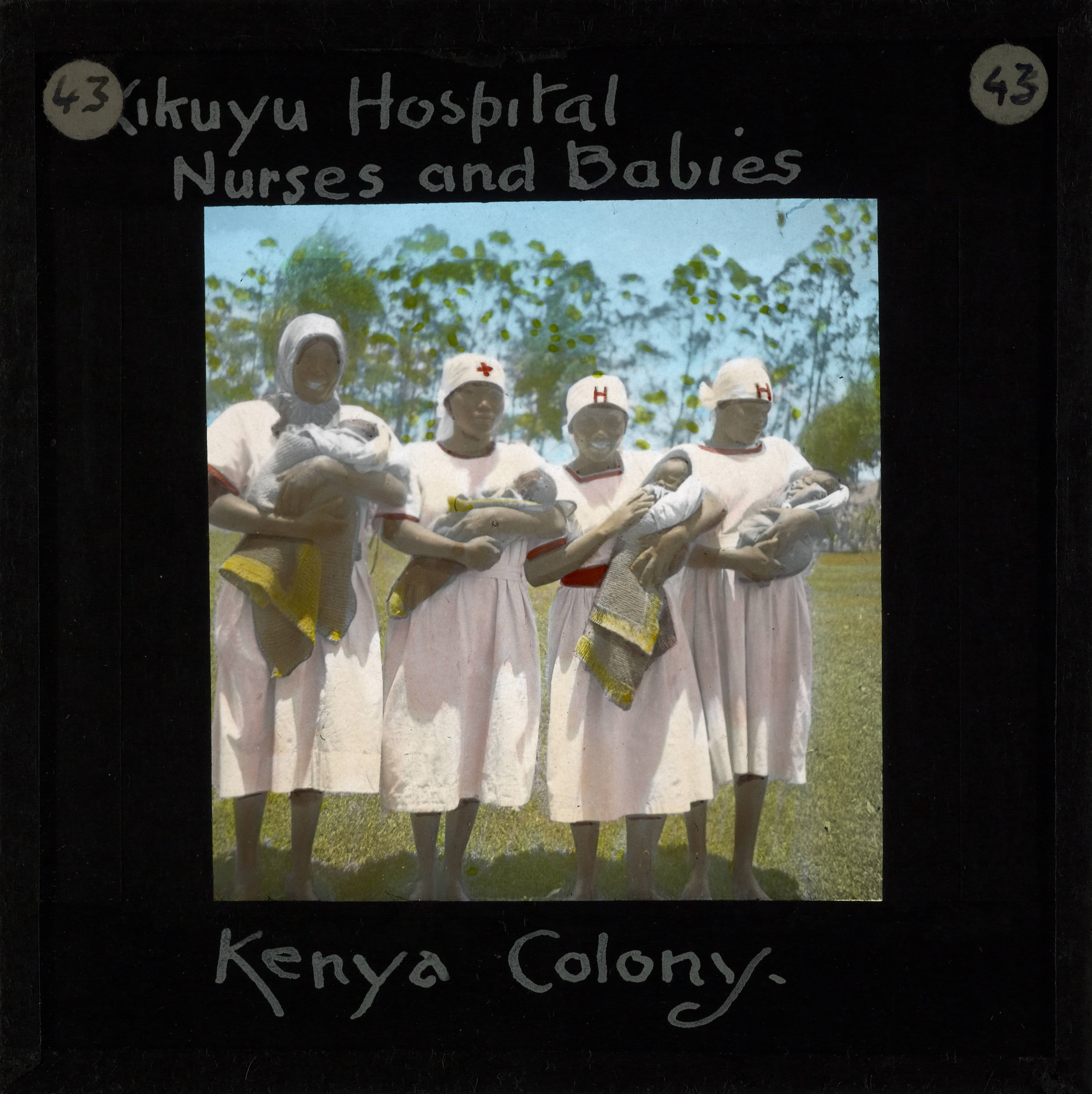 Kikuyu Hospital Nurses and Babies, Kenya, ca.1905-ca.1940 "Kikuyu Hospital Nurses and Babies, Kenya Colony" Photograph of 4 nurses from Kikuyu Hospital. Each nurse is holding a small baby wrapped in a blanket. Kikuyu Hospital was established by Scottish missionaries in 1908.; This belongs to a series of Church of Scotland Foreign Missions Committee lantern slides relating to the Kikuyu Mission in Kenya, which was set up by Church of Scotland missionaries. Hospitals were established by Scottish missionaries in Kikuyu in 1908, in Tumutumu in 1909, and in Chogoria in 1922. The missionaries also introduced the Presbyterian Church to the area. The Kikuyu are Kenyaas most populous ethnic group. Photographer: Unknown Filename: imp-cswc-GB-237-CSWC47-LS7-043.tif Coverage date: 1905/1940 Part of collection: International Mission Photography Archive, ca.1860-ca.1960 Type: images Part of subcollection: Photographs from the Centre for the Study of World Christianity, University of Edinburgh, U.K., ca.1900-ca.1940s Repository name: Centre for the Study of World Christianity Archival file: impaunpub_Volume7/1650.url Repository address: The University of Edinburgh School of Divinity, New College, Mound Place, Edinburgh EH1 2LX, United Kingdom Geographic subject (country): Kenya Format (aacr2): 1 lantern slide : 8 x 8 cm. Geographic subject (continent): Africa Rights: Contact the repository for details. Part of series: Kenya Mission LS7 Repository Subject (lcsh Keyword): Hospitals; Medical care; Infants Date created: 1905/1940 Publisher (of the digital version): University of Southern California. Libraries Subject (aat genre): group portraits Format (aat): lantern slides Legacy record ID: impa-m68757 Access conditions: File: GB 237 CSWC47/LS7/43